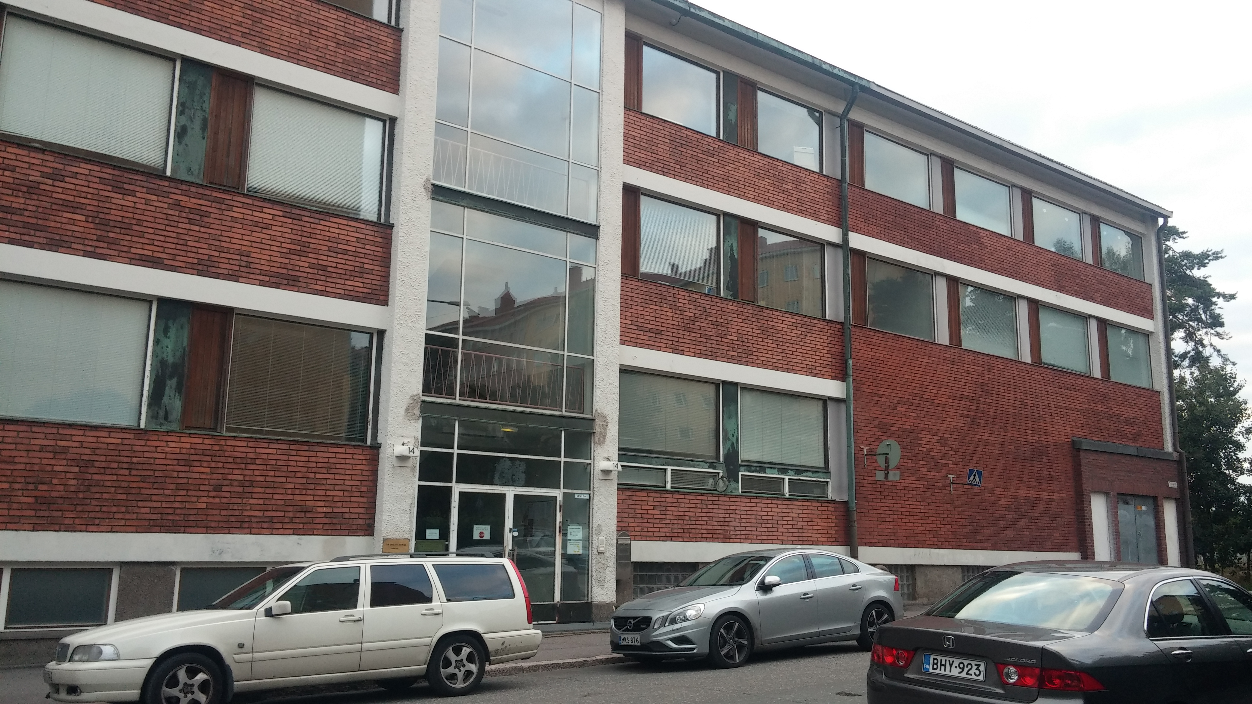 The English School in Meilahti, Helsinki.